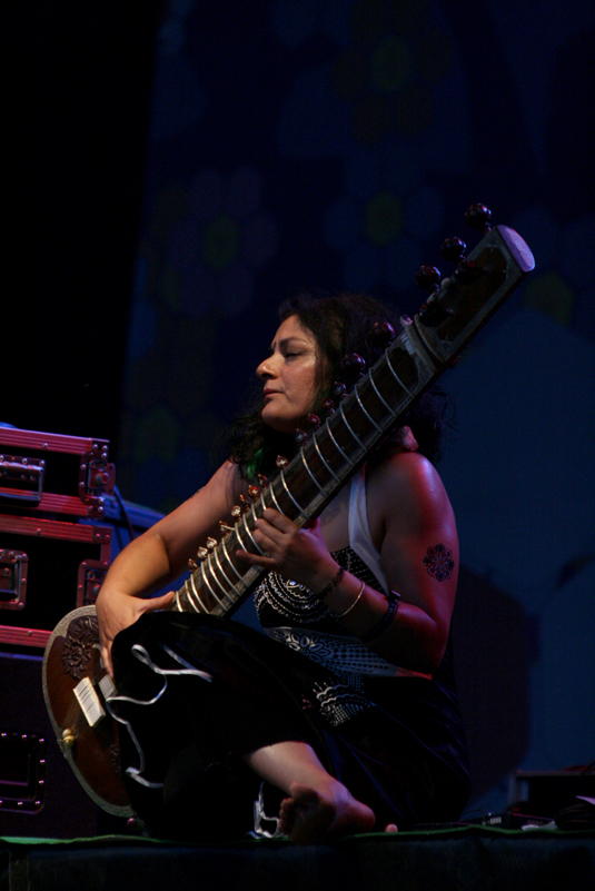 Transglobal Underground member Sheema Mukherjee performing live in 2008.